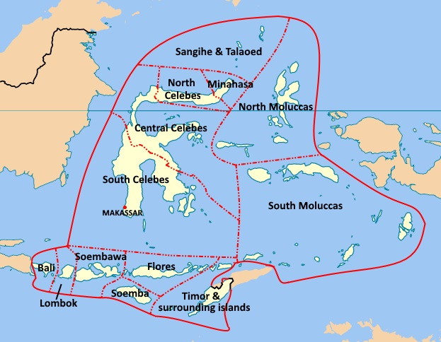 The State of East Indonesia, part of the United States of Indonesia